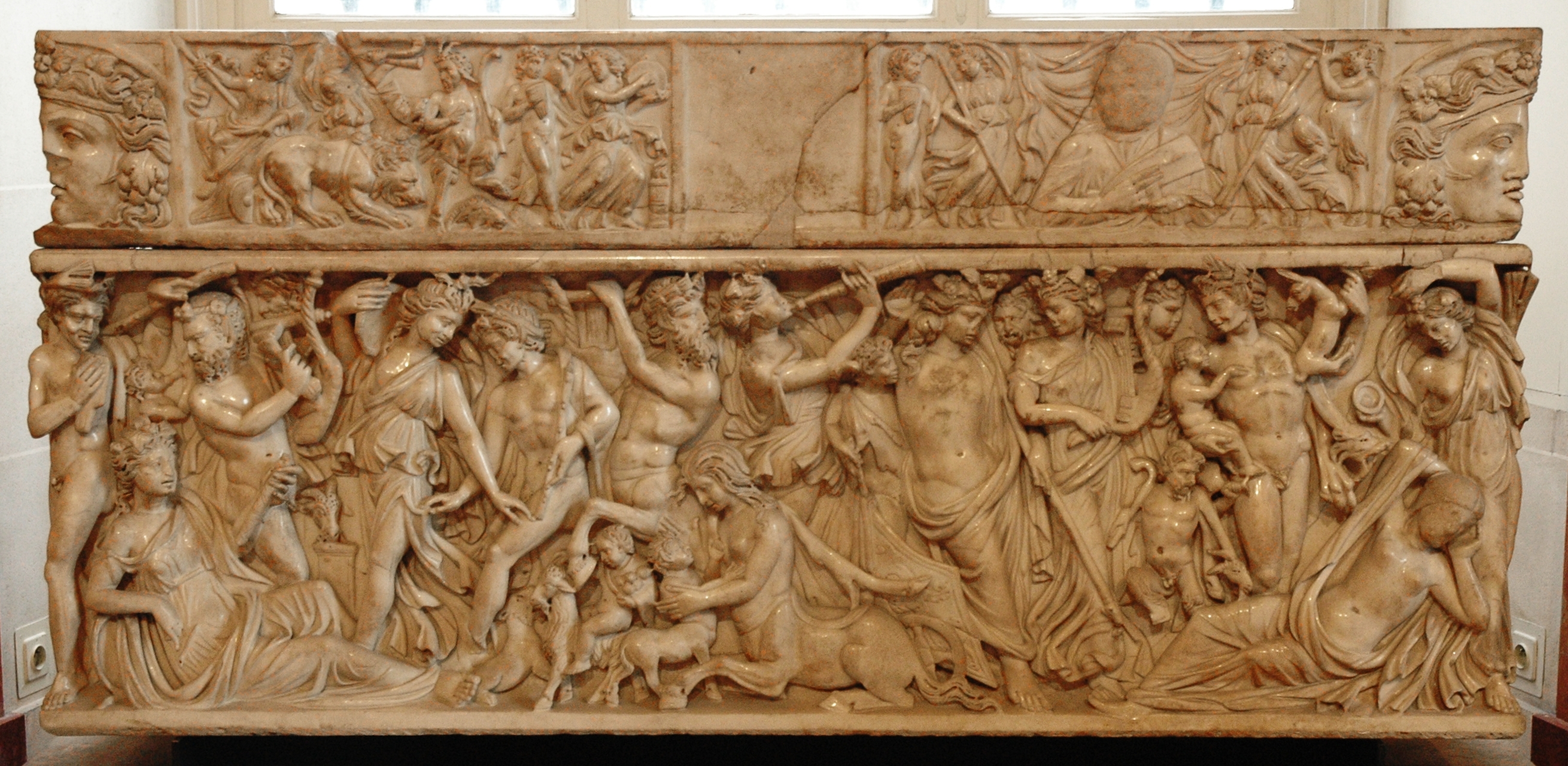 Ariadne and Dionysos. Front panel of a marble sarcophagus, early 3rd century AD.